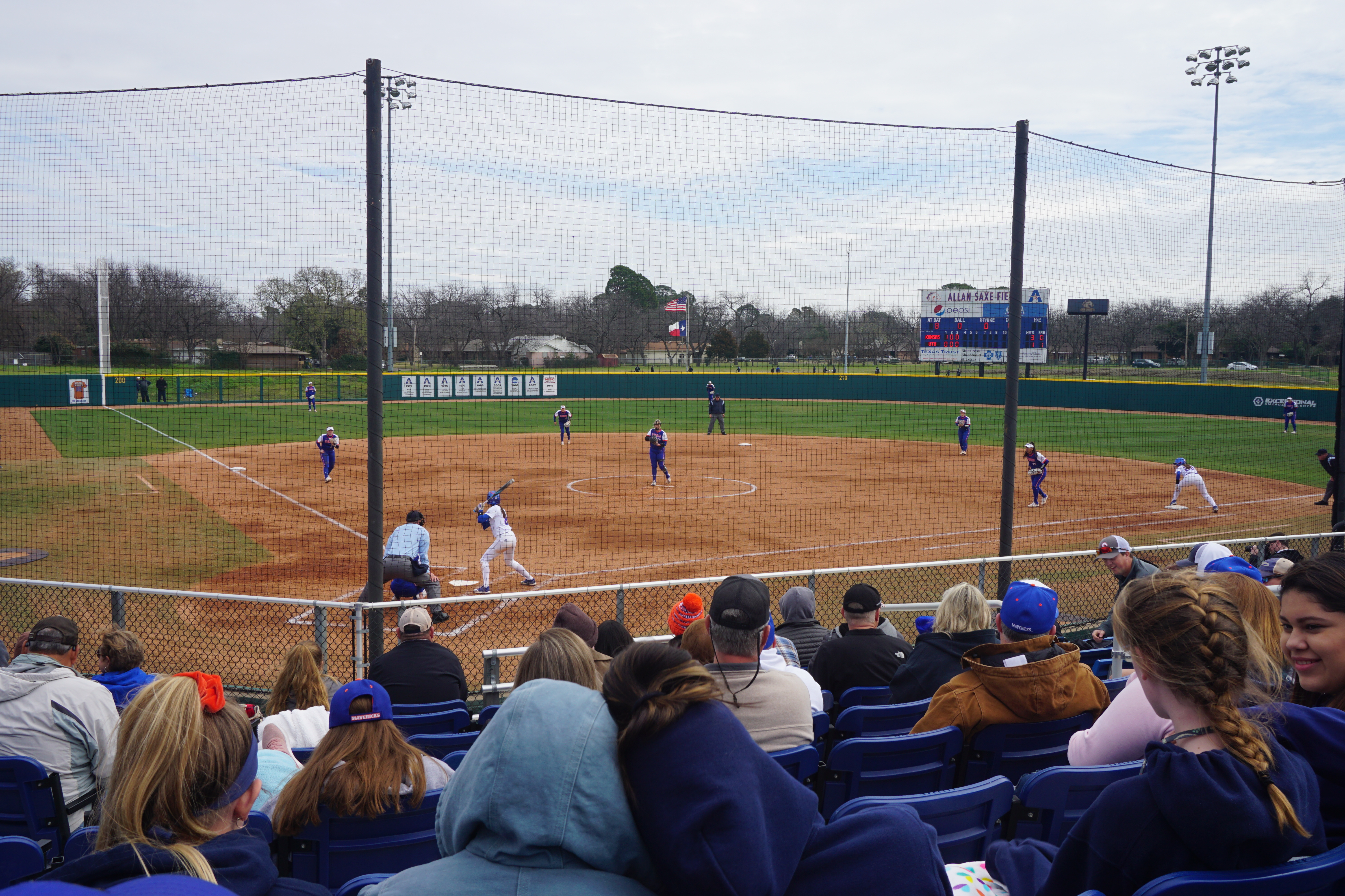 In-game action during the Kansas Jayhawks vs. UT Arlington Mavericks softball game at Allan Saxe Field in Arlington, Texas (United States). Kansas won 8–3.